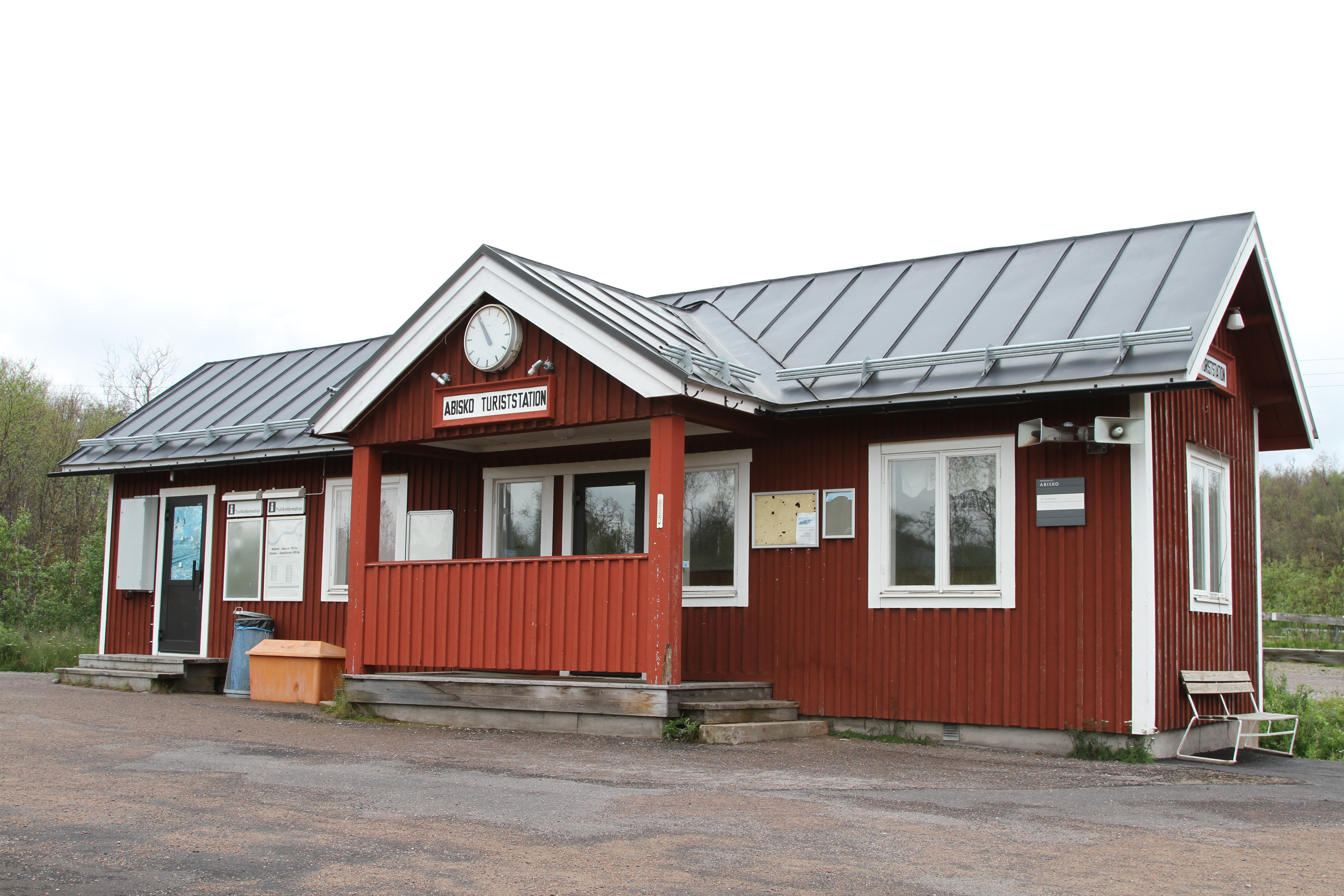 The train station Abisko Turiststation, named after the Swedish Tourist Association's nearby hostel of the same name.